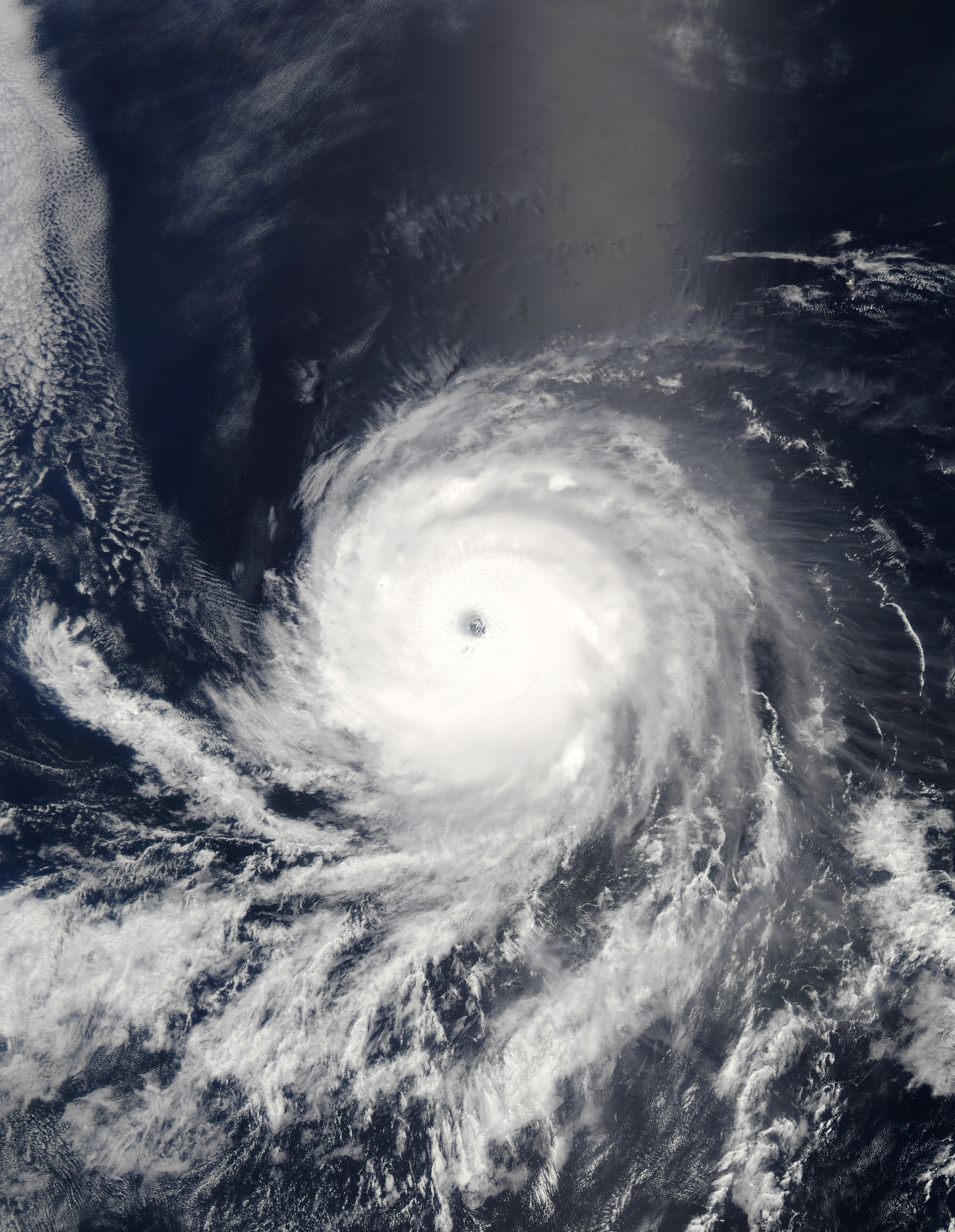 Hurricane Celia on June 24, 2010